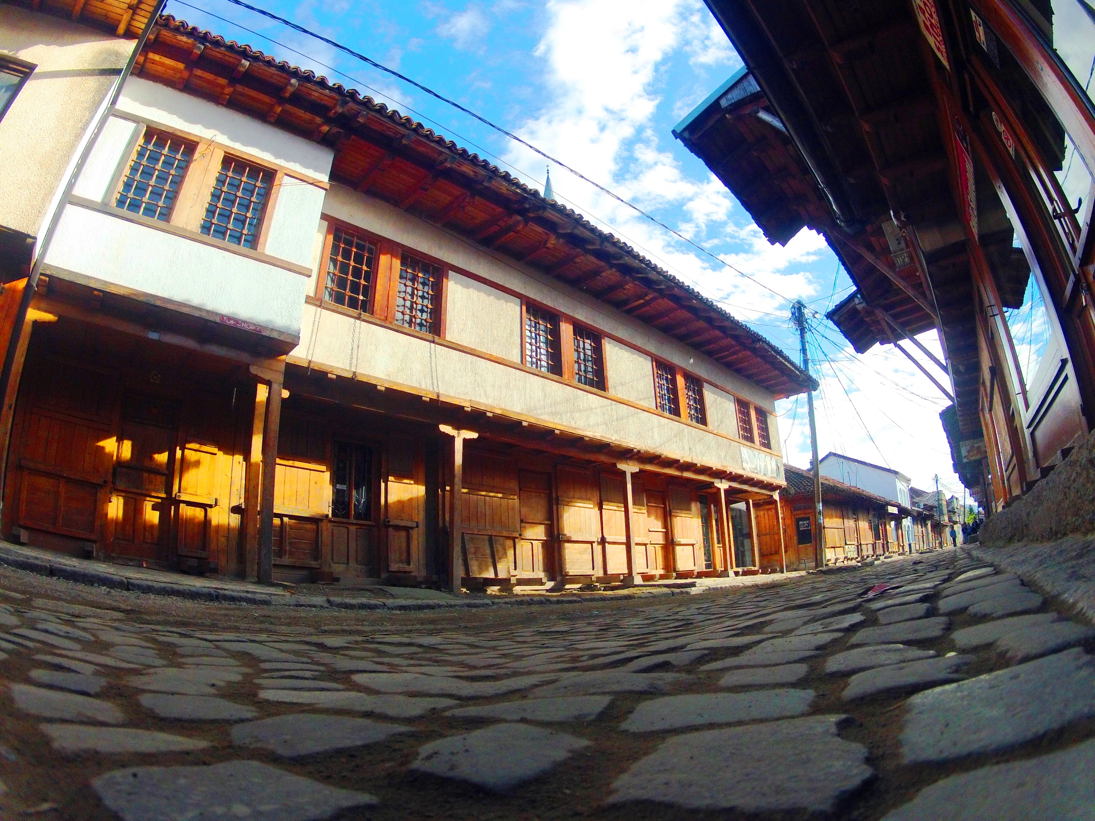 Gjakova's " Çarshia e Madhe " ( Big Bazaar ) was established with the appearance of the first craftsmen and of the manufacture production craft-work. It arose then when Gjakova won the status of " kasaba " when in 1003 H (1594/95) Sylejman Hadim Aga.